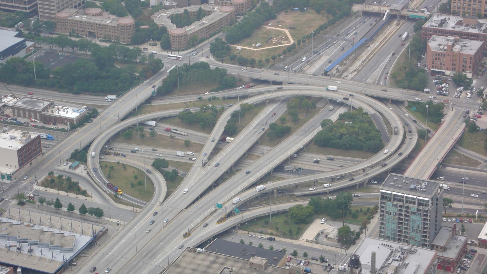 Chicago